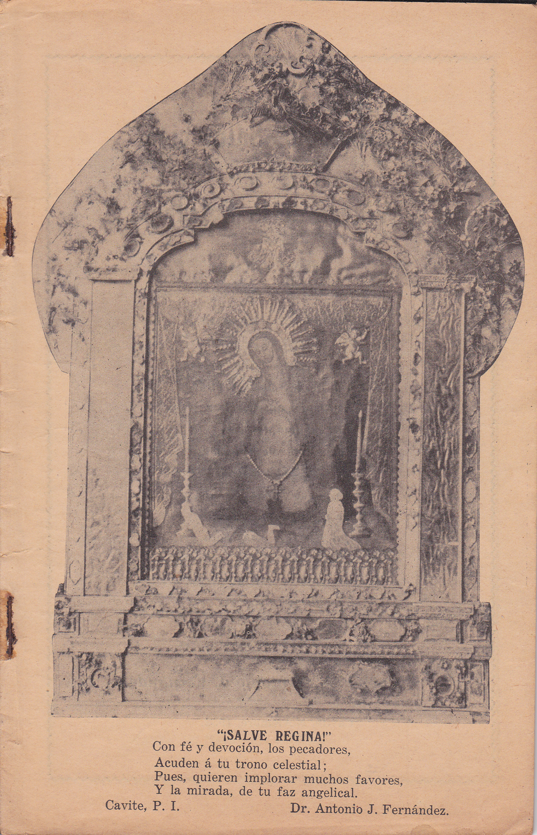 Original silver frame of Our Lady of Solitude of Porta Vaga